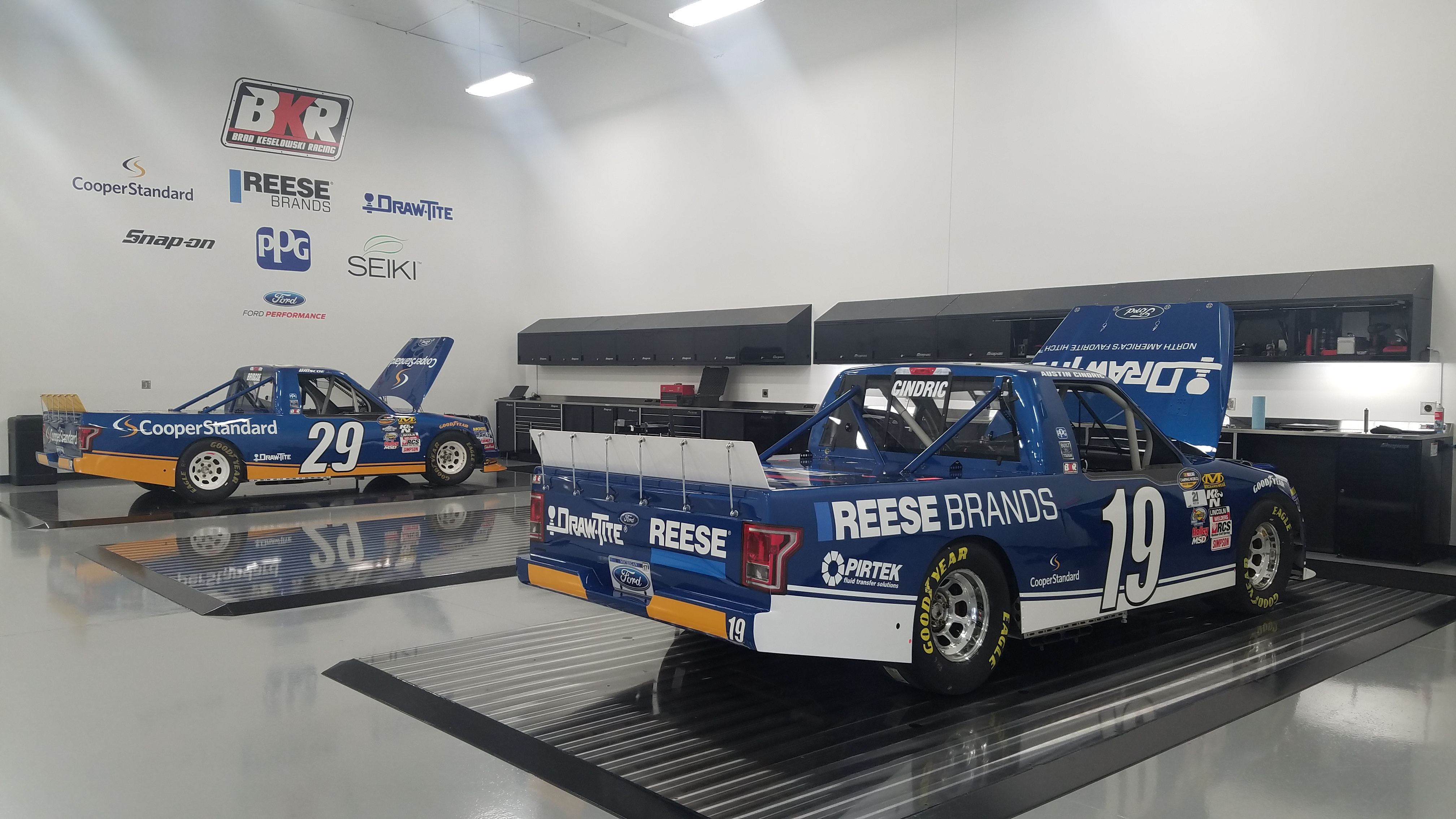 Austin Cindric's No. 19 Draw-Tite Ford F-150 and Chase Briscoe's No. 29 Cooper Standard Ford F-150 at the Brad Keselowski Racing shop in Statesville, NC.